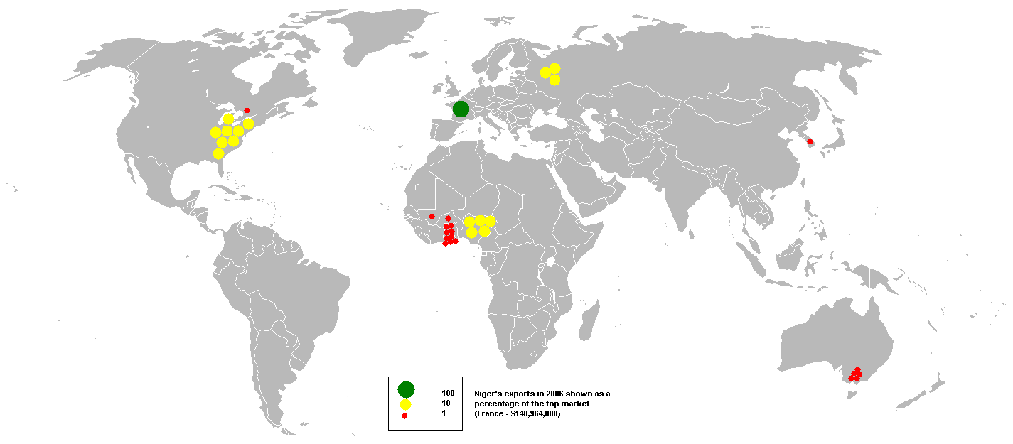 This bubble map shows the global distribution of Niger's exports in 2006 as a percentage of the top market (France - $148,964,000). This map is consistent with incomplete set of data too as long as the top producer is known. It resolves the accessibility issues faced by colour-coded maps that may not be properly rendered in old computer screens. Data was extracted on 19th September 2007 from Based on :Image:BlankMap-World.png